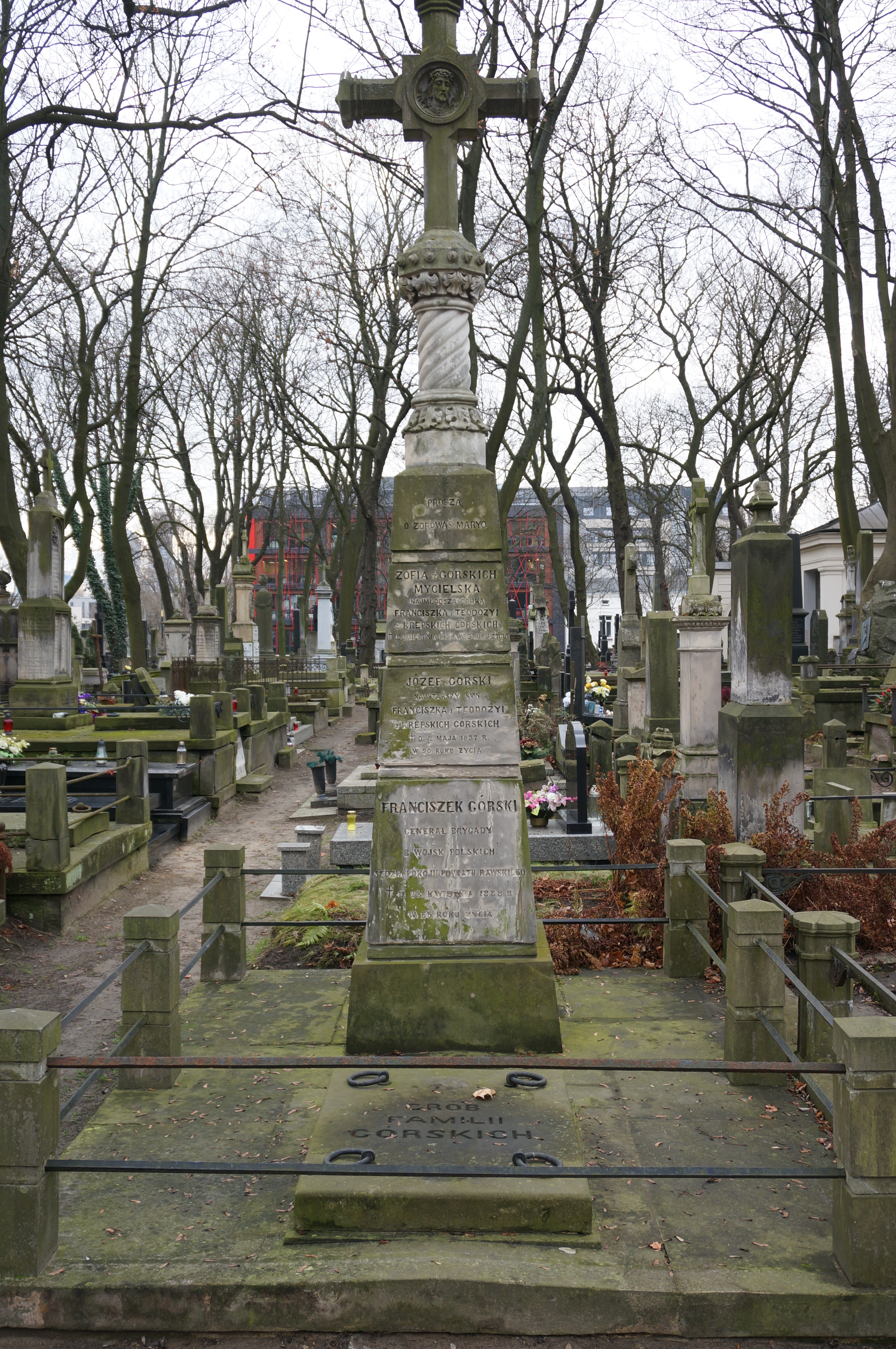 The grave of Franciszek Górski at the Powązki Cemetery (section 159, row 2, grave 1-3)